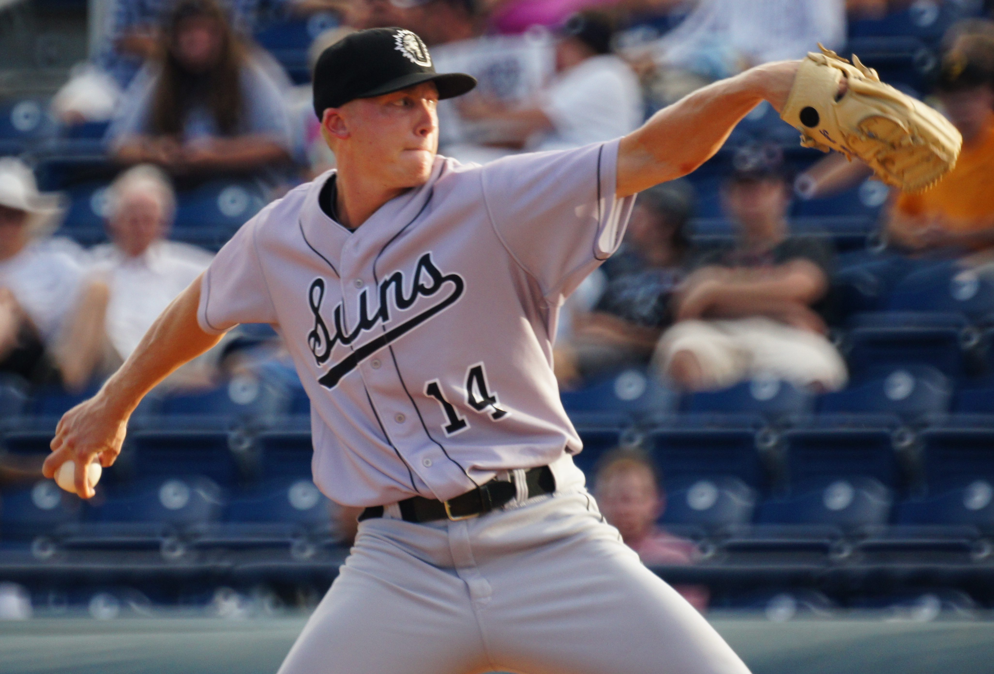 Scott McGough delivers a pitch for the Jacksonville Suns in 2013.